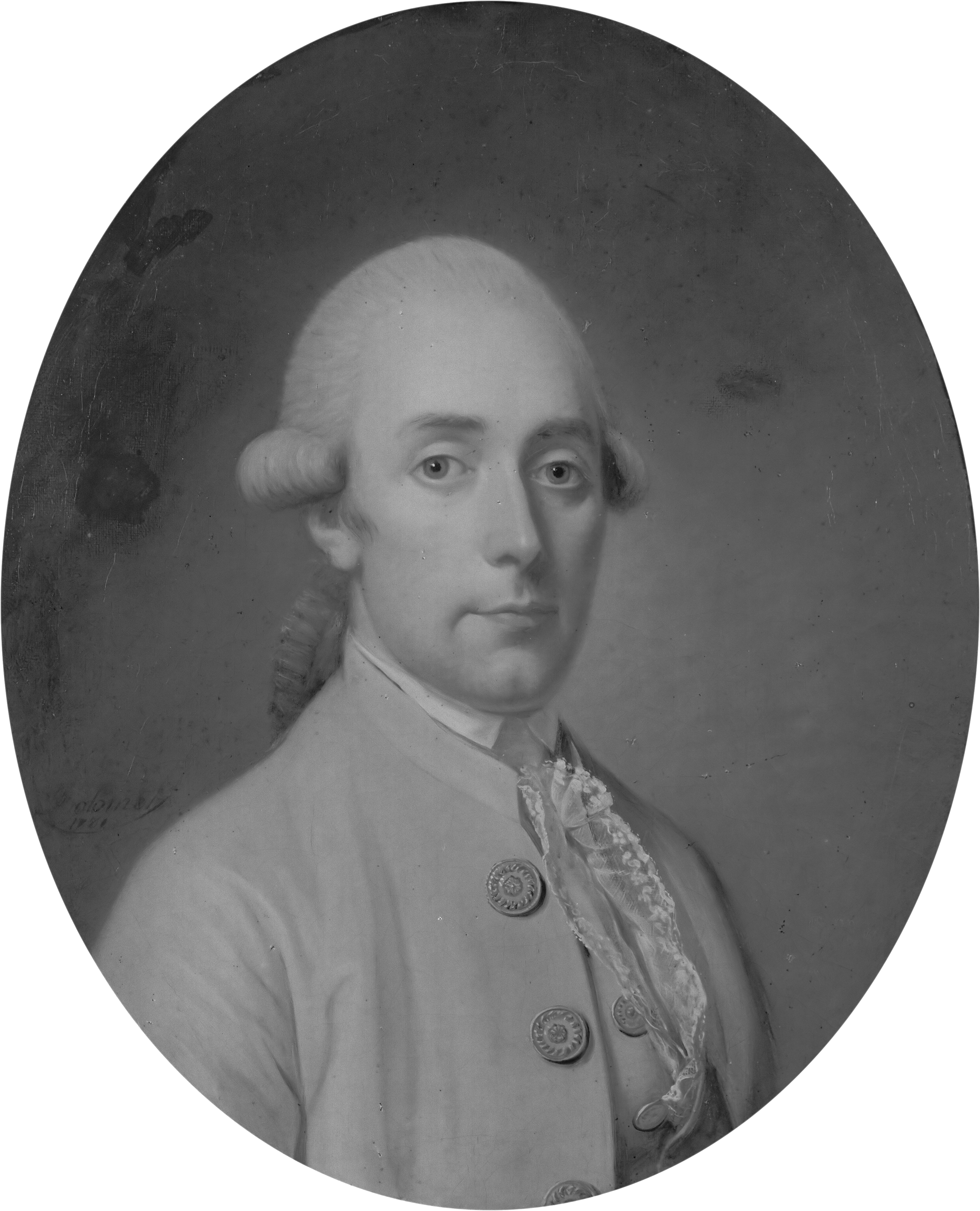 Balthasar Daniel van Idsinga (1745-1818), mayor of Groningen.